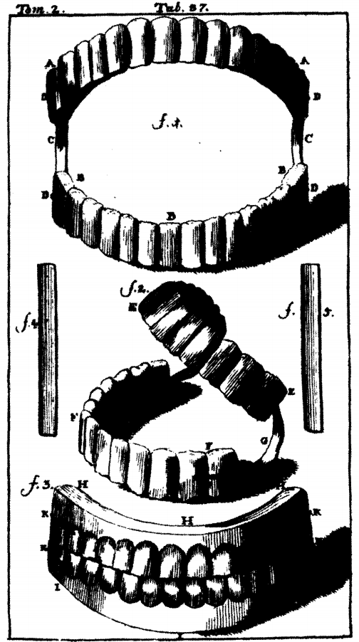 A metal frame and carved animal teeth are used to construct a primitive set of dentures in this illustration from Pierre Fauchard's 1728 Le Chirurgien Dentiste. The dentures would be held in place with metal leaf springs.